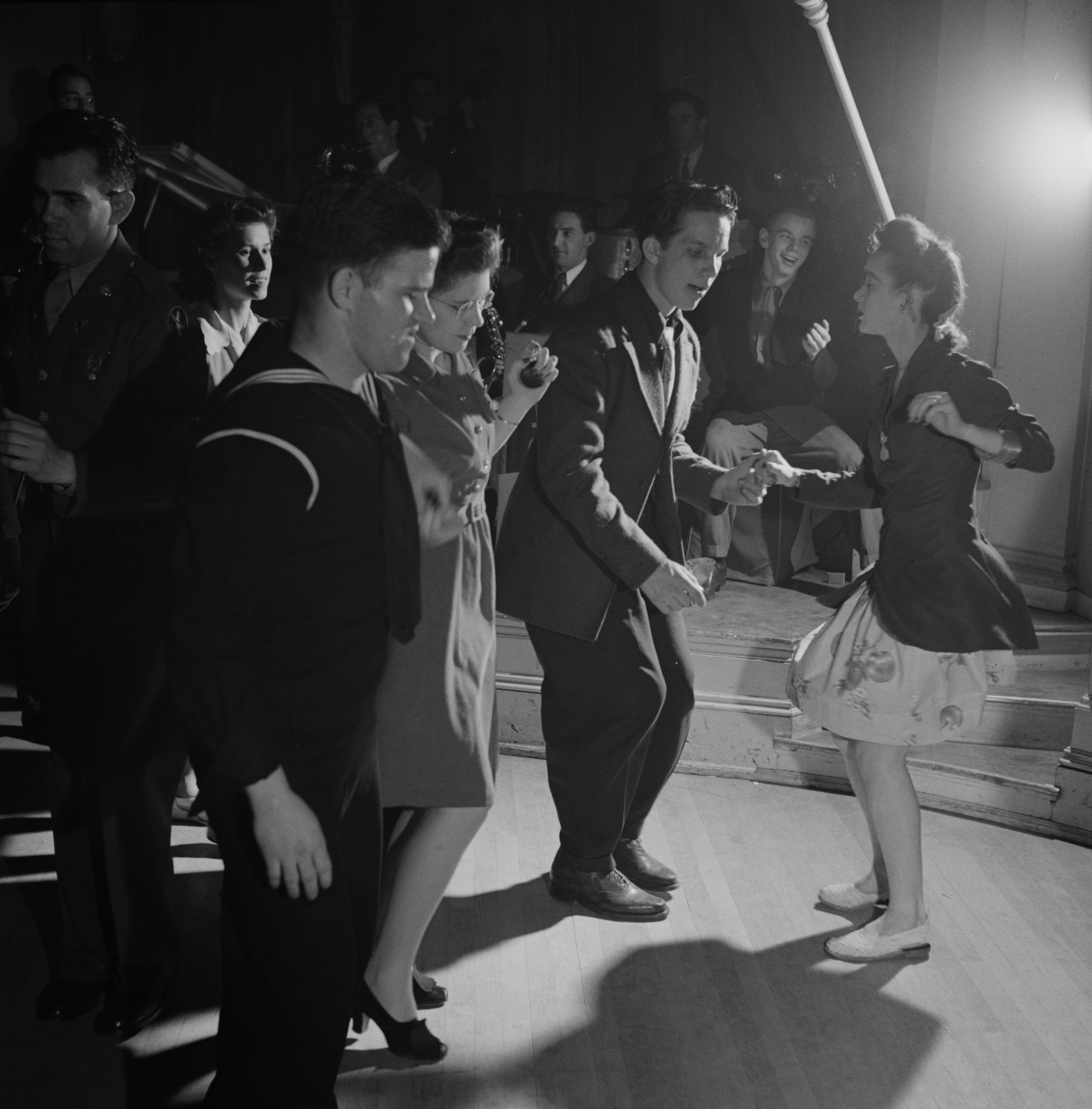 The photo was taken by Esther Bubley and first published in April, 1943. The original caption read: "Washington, D. C. Jitterbus at an Elk's Club dance, the "cleanest dance in town". Credit: Library of Congress, Prints & Photographs Division, FSA-OWI Collection, [reproduction number, e.g., LC-USF35-1326]